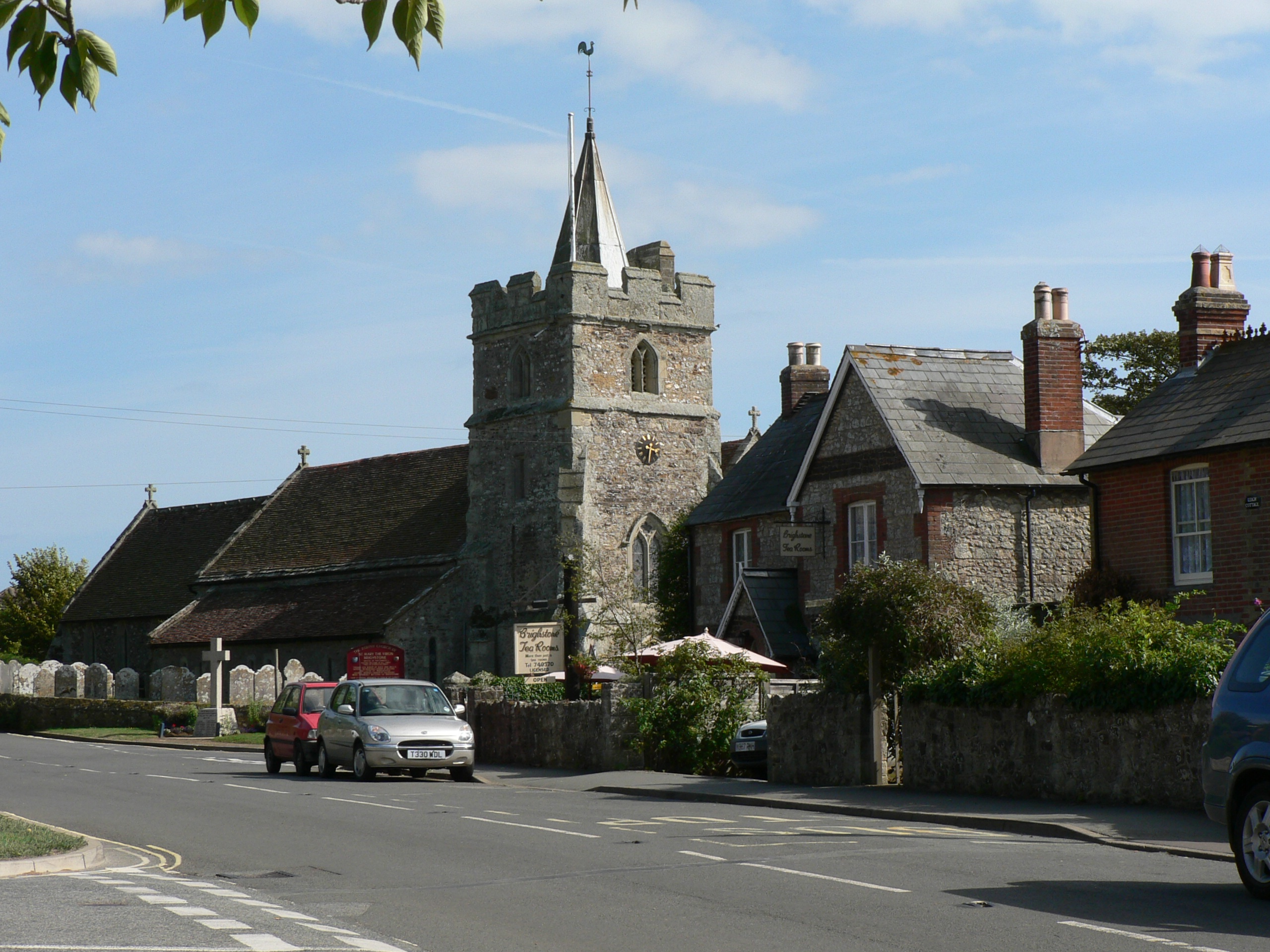 Tea rooms were open for business - good thing too as the pub was shut.